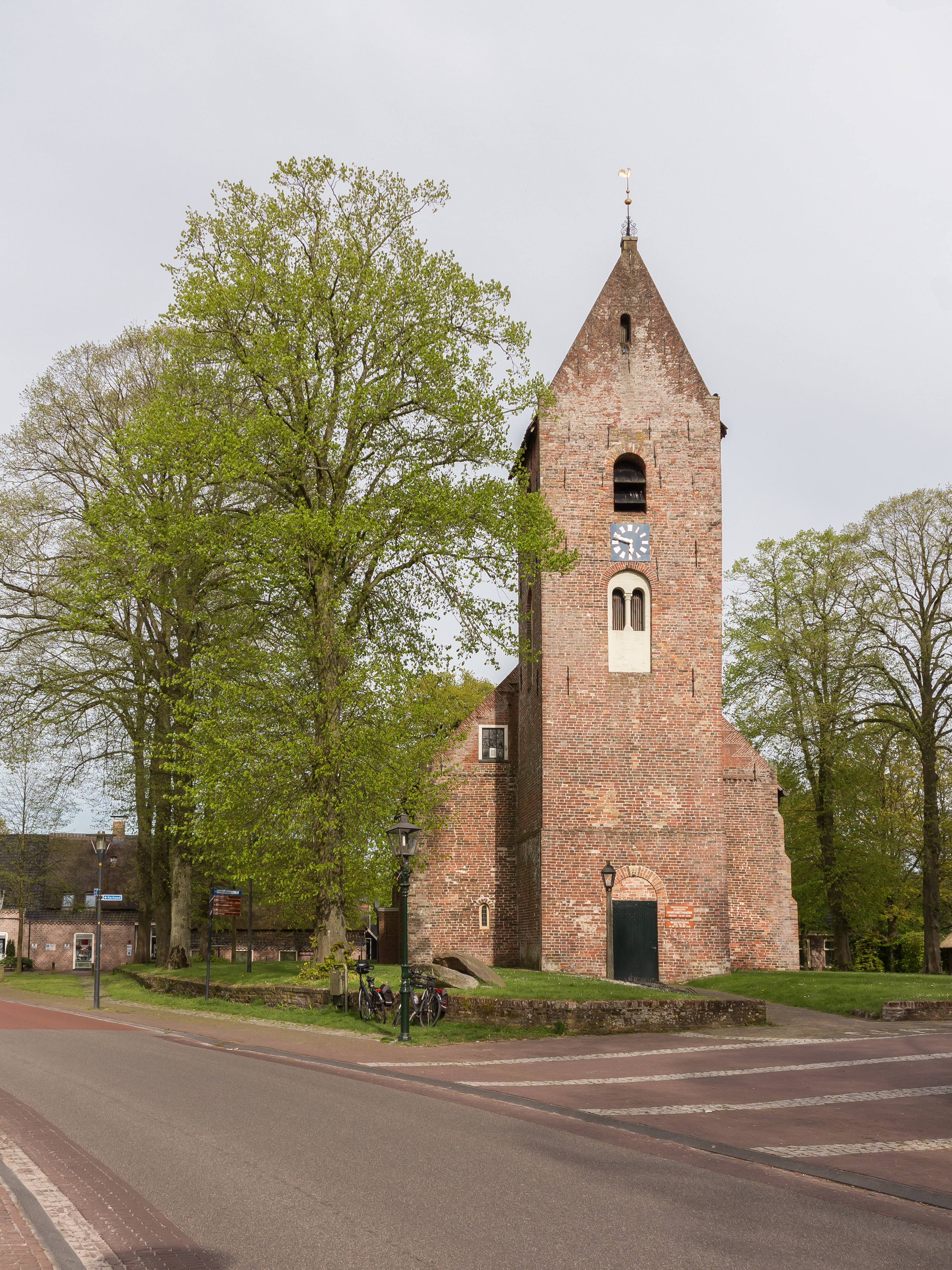 Norg, church: de Sint Margaretakerk